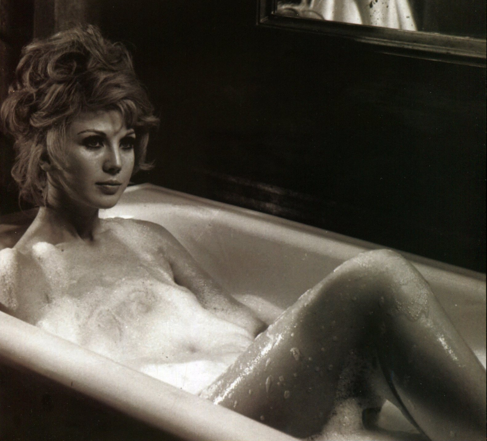 Italian actress Erna Schürer (born Emma Costantino in Naples) in the Italian horror film Scream of the Demon Lover (1970) (Italian: Il castello dalle porte di fuoco).